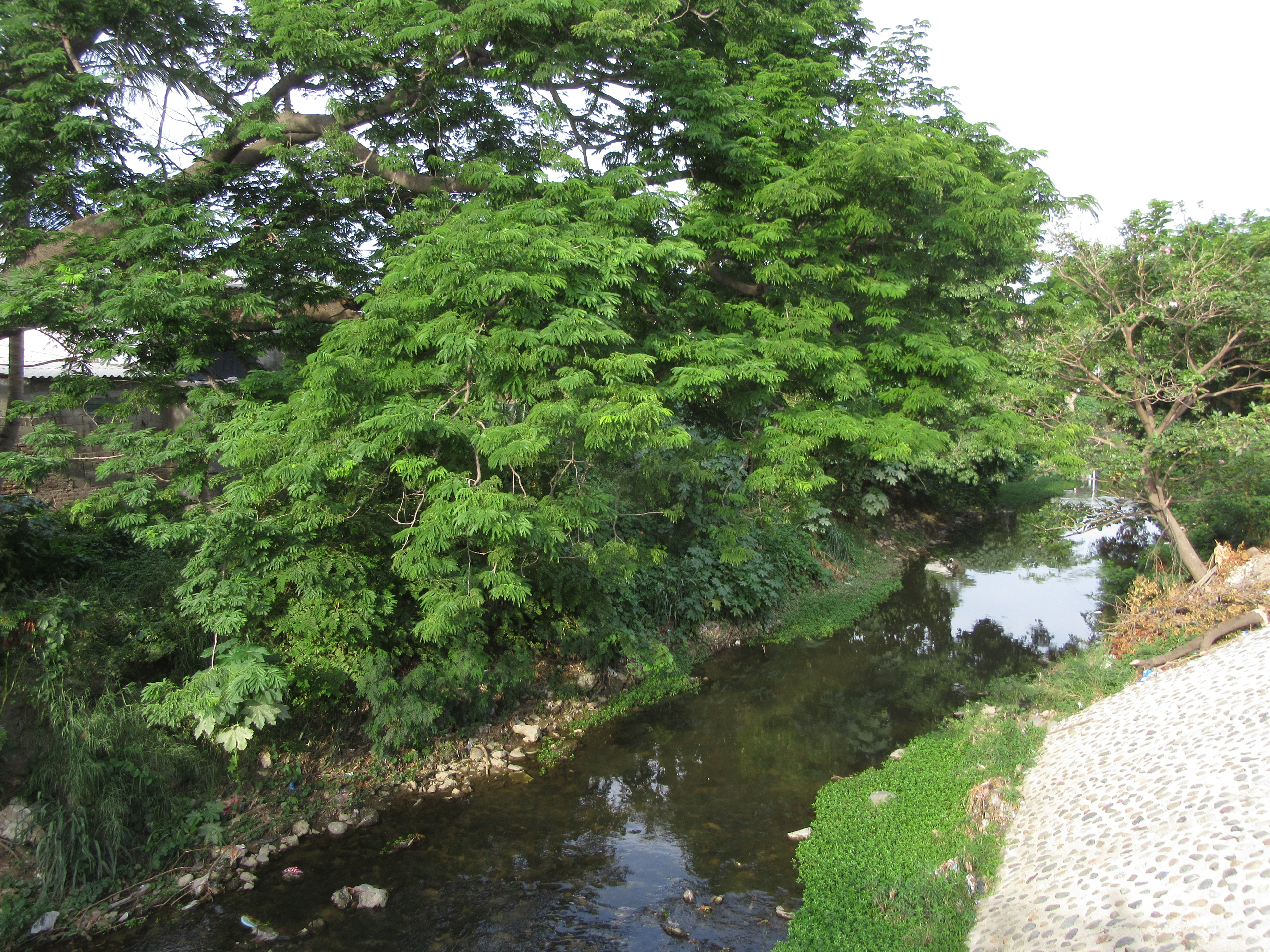 Santa Marta